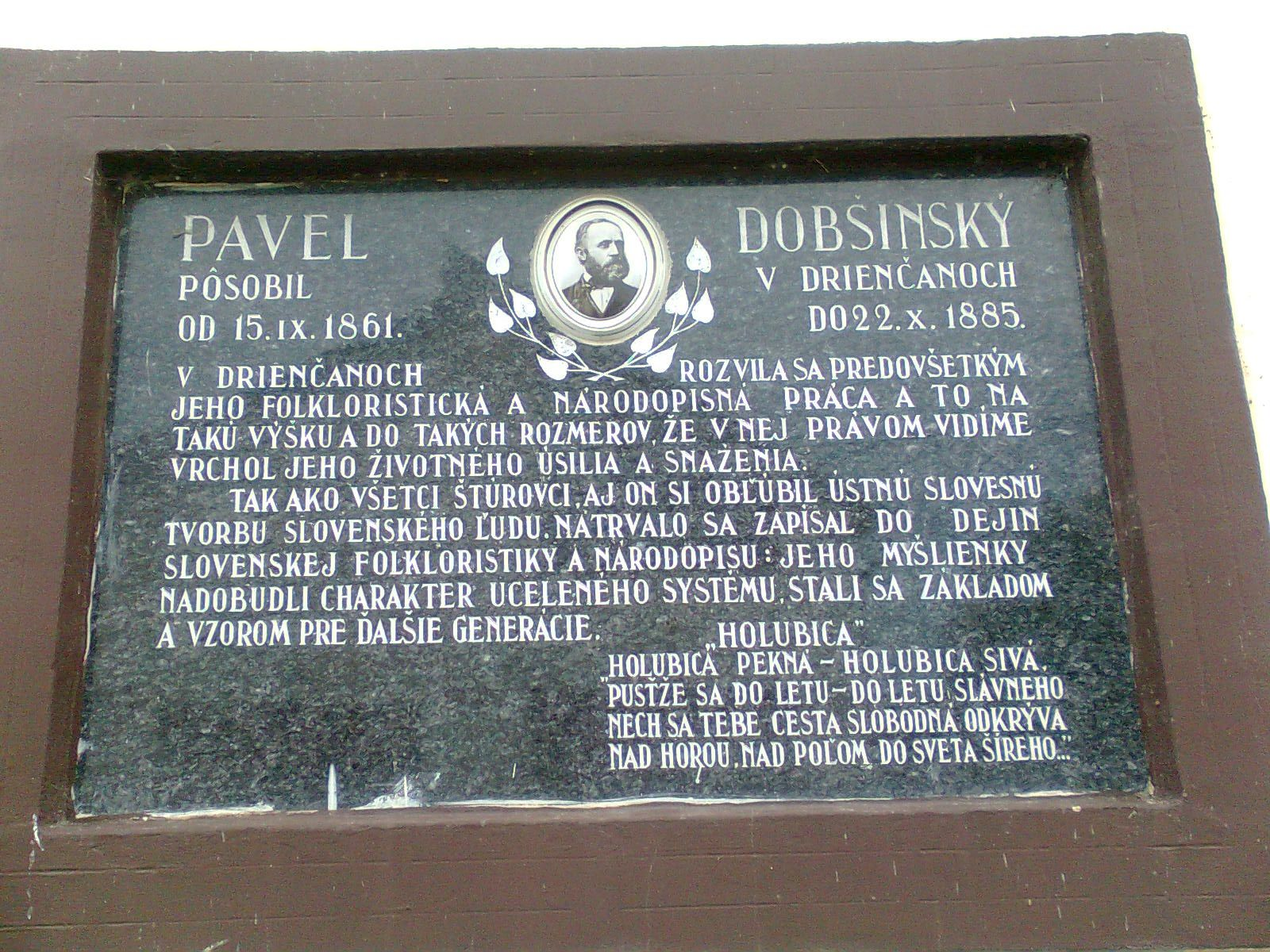 Pavol Dobšinský plaque in Košice, Slovakia